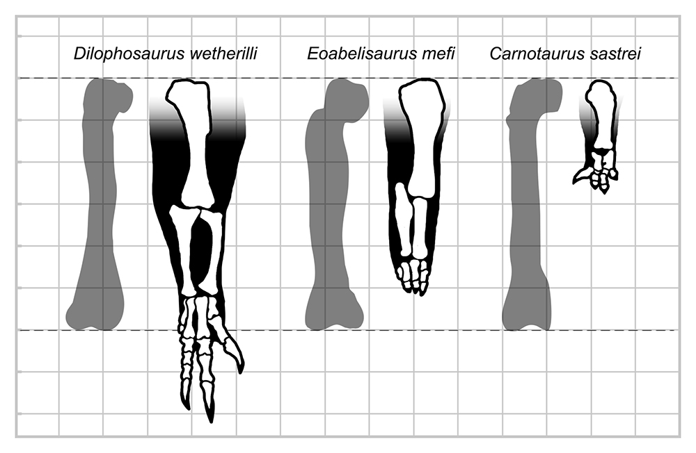 Comparison between Carnotaurus, Dilophosaurus, and Eoabelisaurus forelimbs. Original comparison from